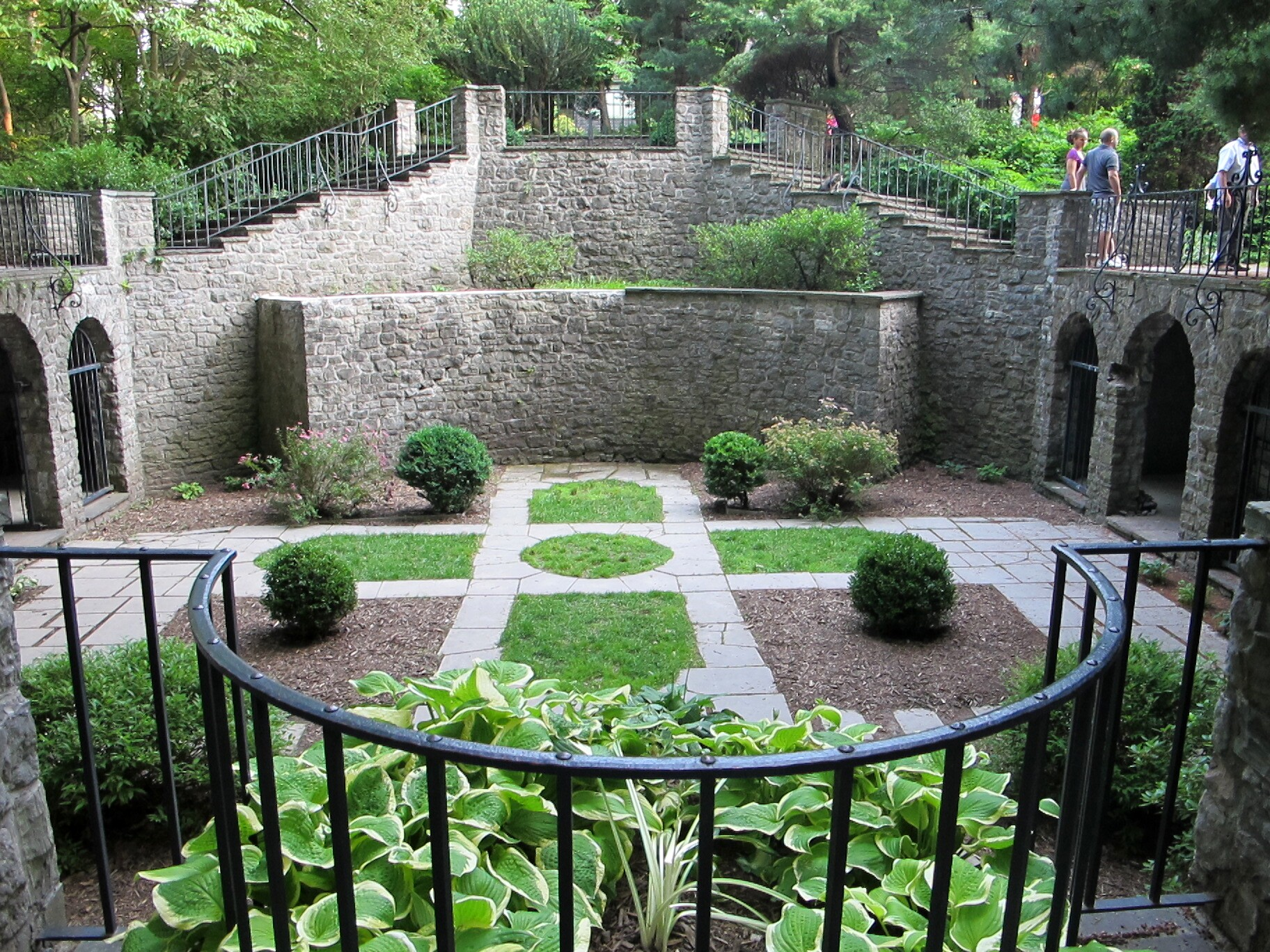 Mt. Hope-Highland Historic District The Sunken Garden designed by famous landscape architect, Alling S. DeForest.